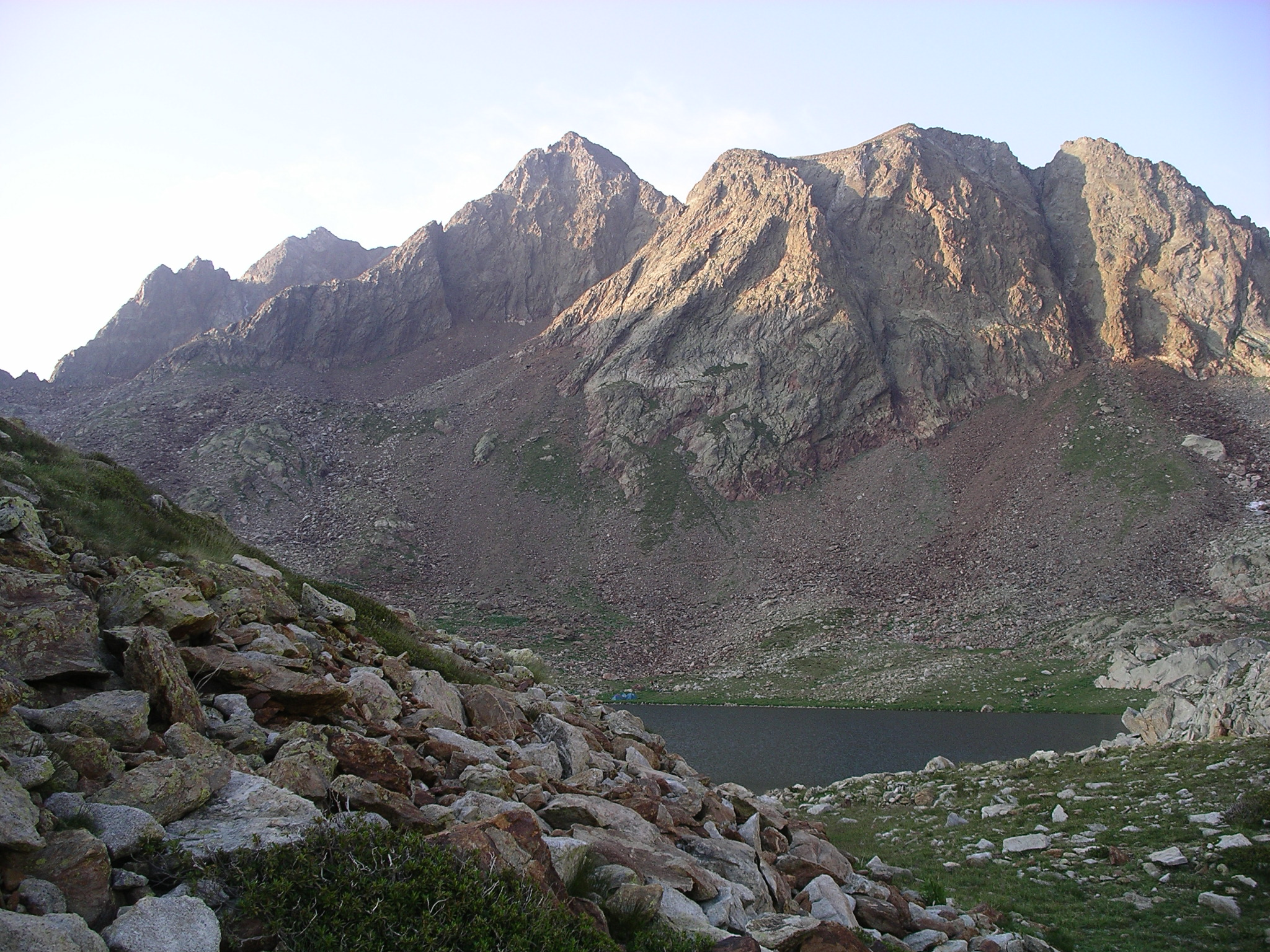 Mt. Malinvern seen from Terre Rouge Lakes, Provence-Alpes-Côte d'Azur, France